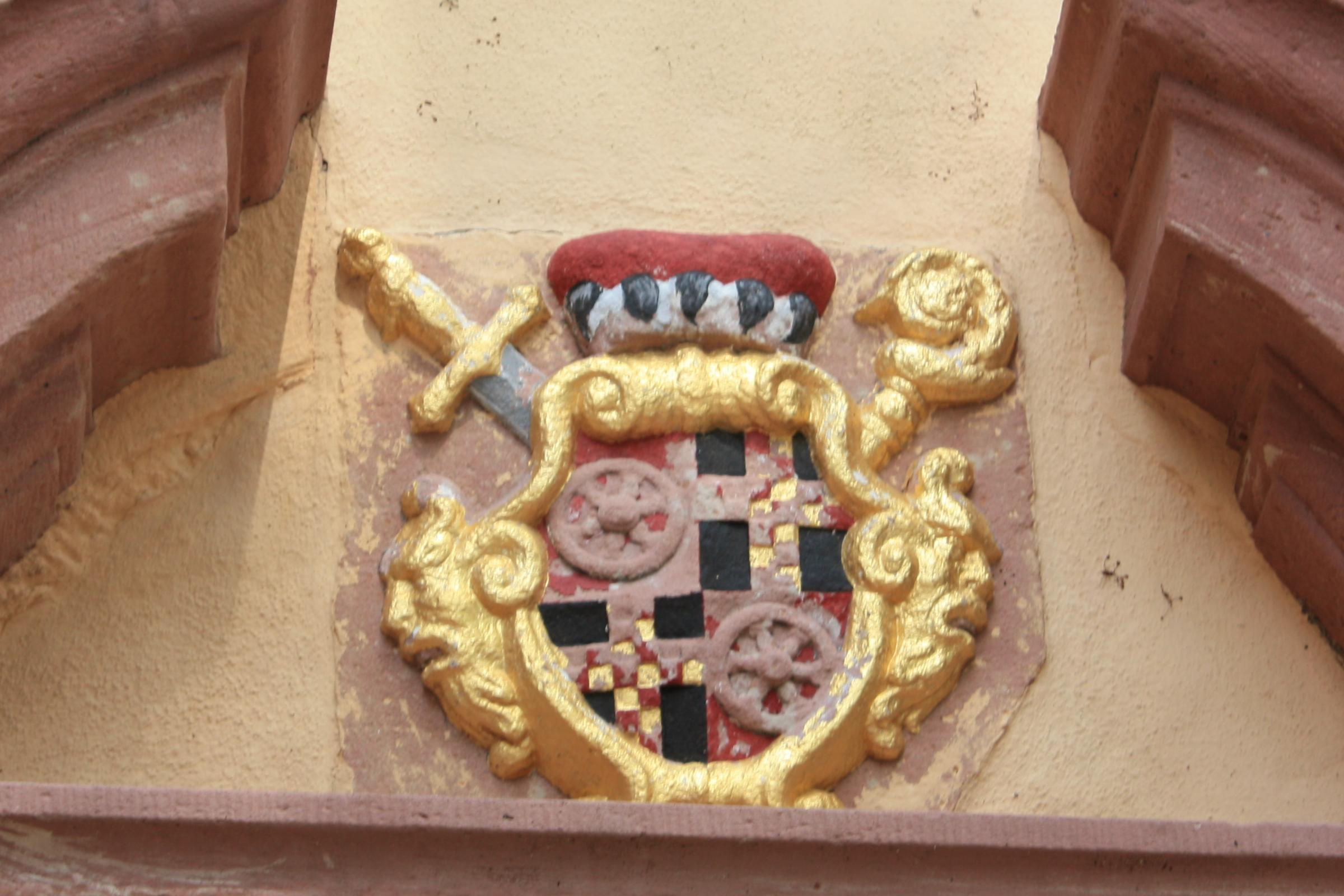 Arms of archbishop Anselm Franz von Ingelheim, at Eltville castle